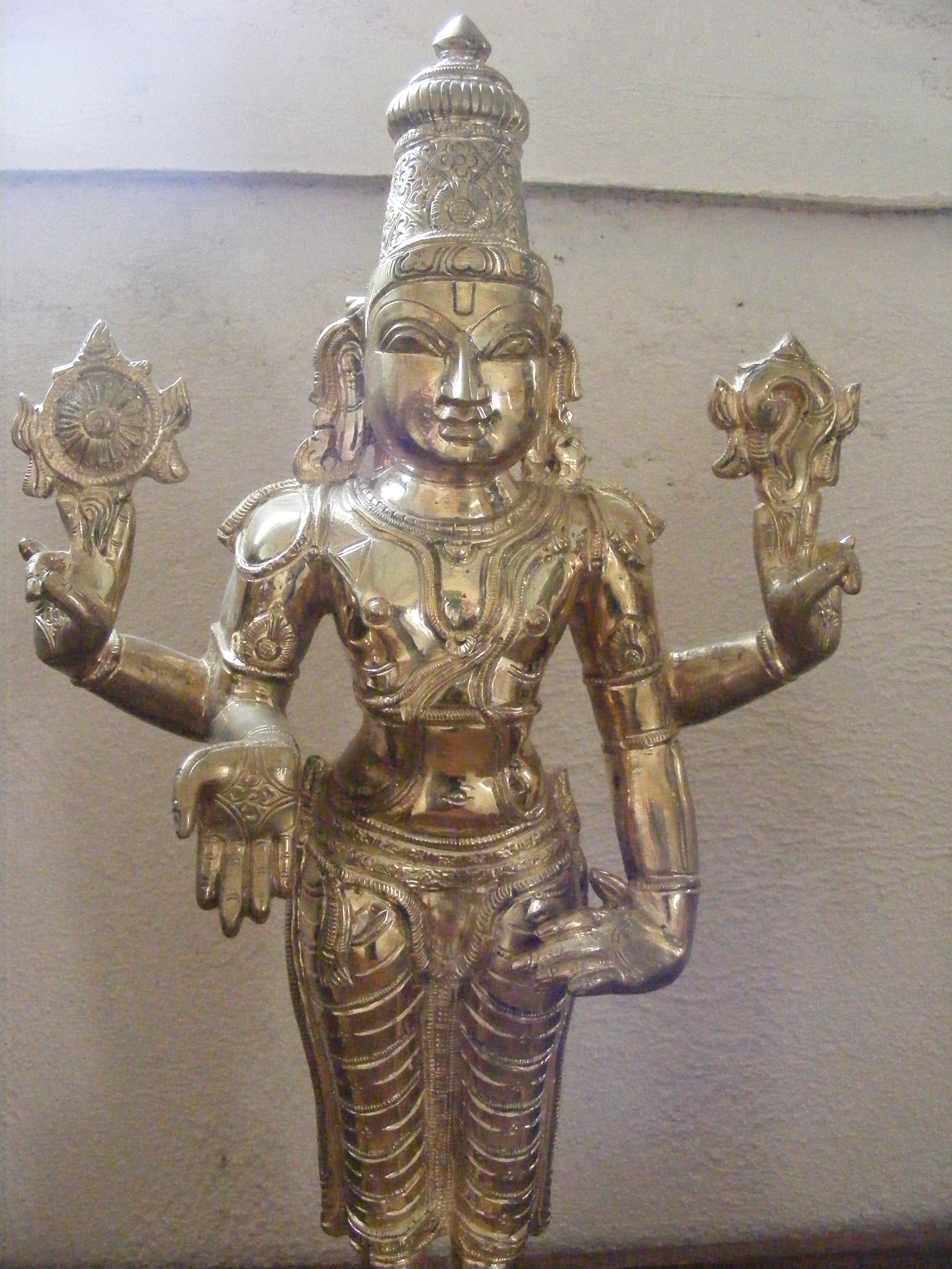 Panchaloha (or Panchatola) idol (an alloy of 5 elements)